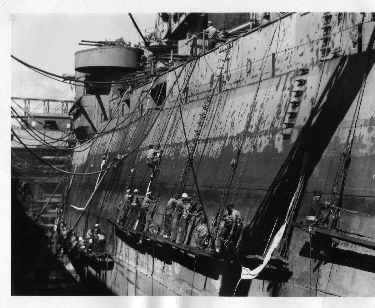 USS New York (BB-34) repaired ABSD-4 in March 1945. New York had her propellers repaired and was cleaned and painted at Seeadler Harbor.